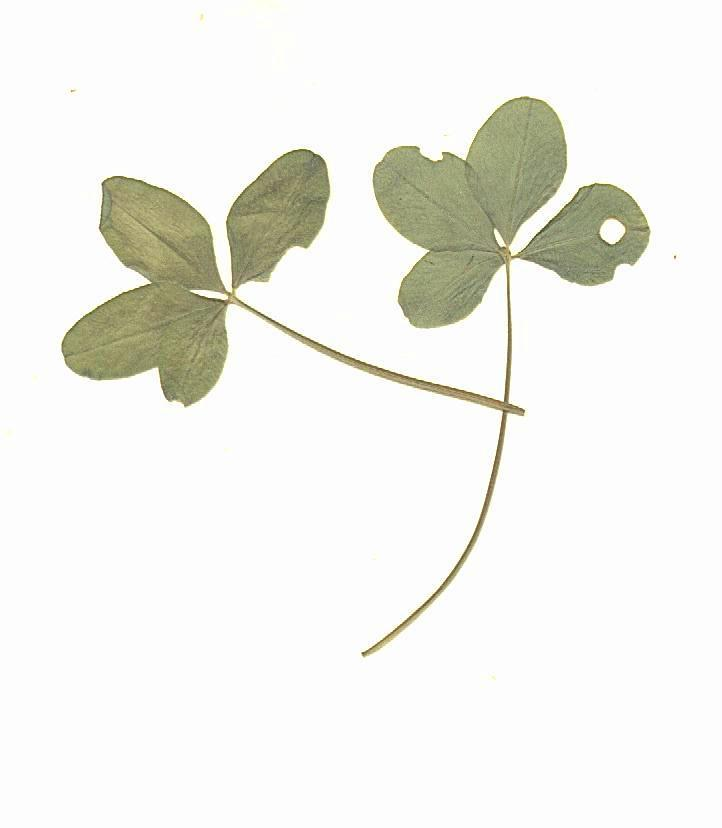 Four leaf clover.